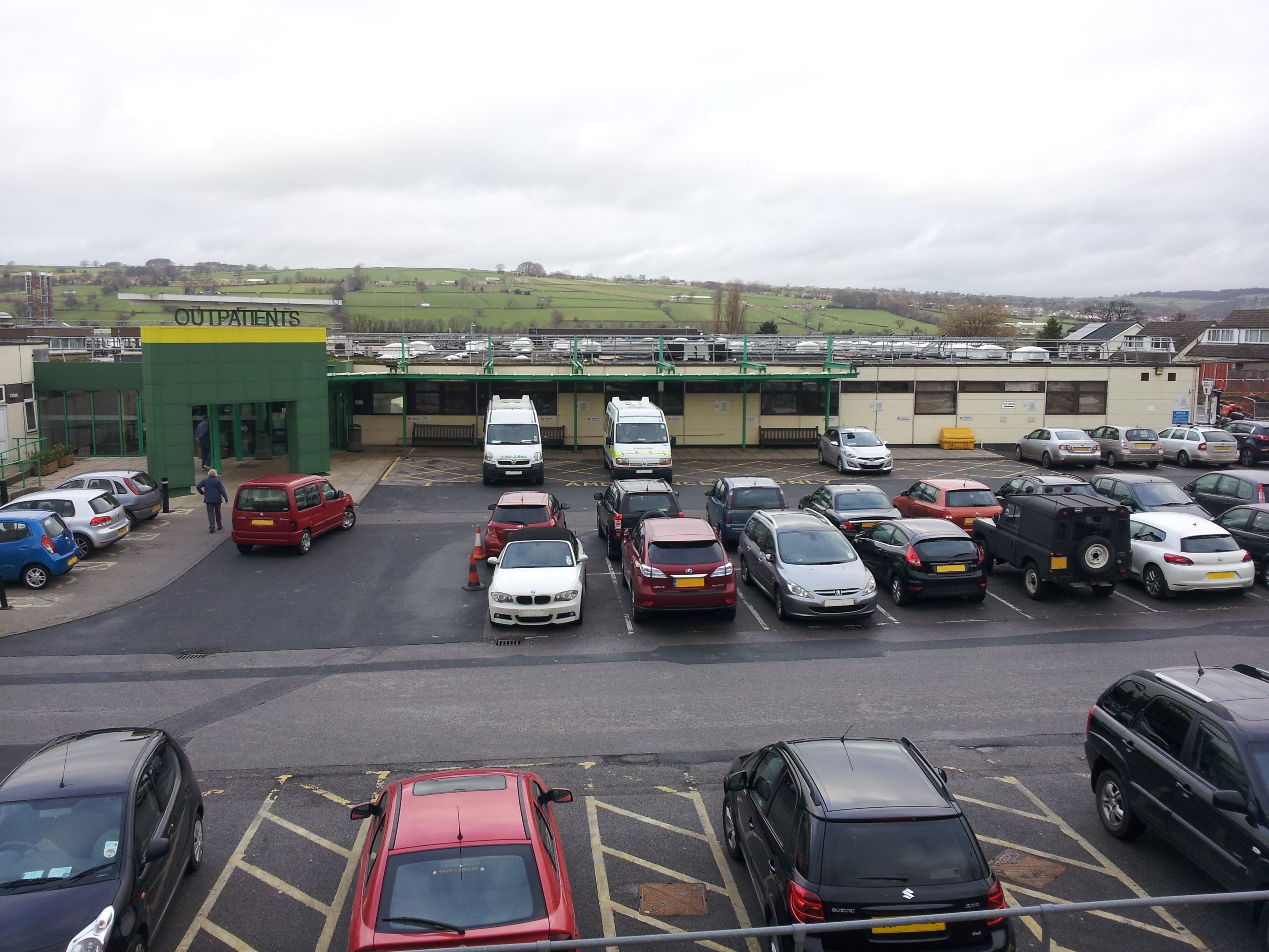 The Outpatients Department of Airedale General Hospital part of Airedale NHS Foundation Trust taken in December 2013. All car registration plates have intentionally been blurred.